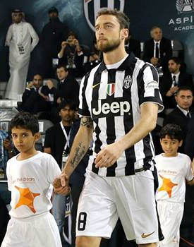 Save the Dream was proud to partner with Aspire Academy and the Qatar Football Association to spread the message of pure sport at the Italian Supercup finals between Juventus and SSC Napoli, held in Doha on December 22nd, 2014. Bianconeri's Claudio Marchisio.